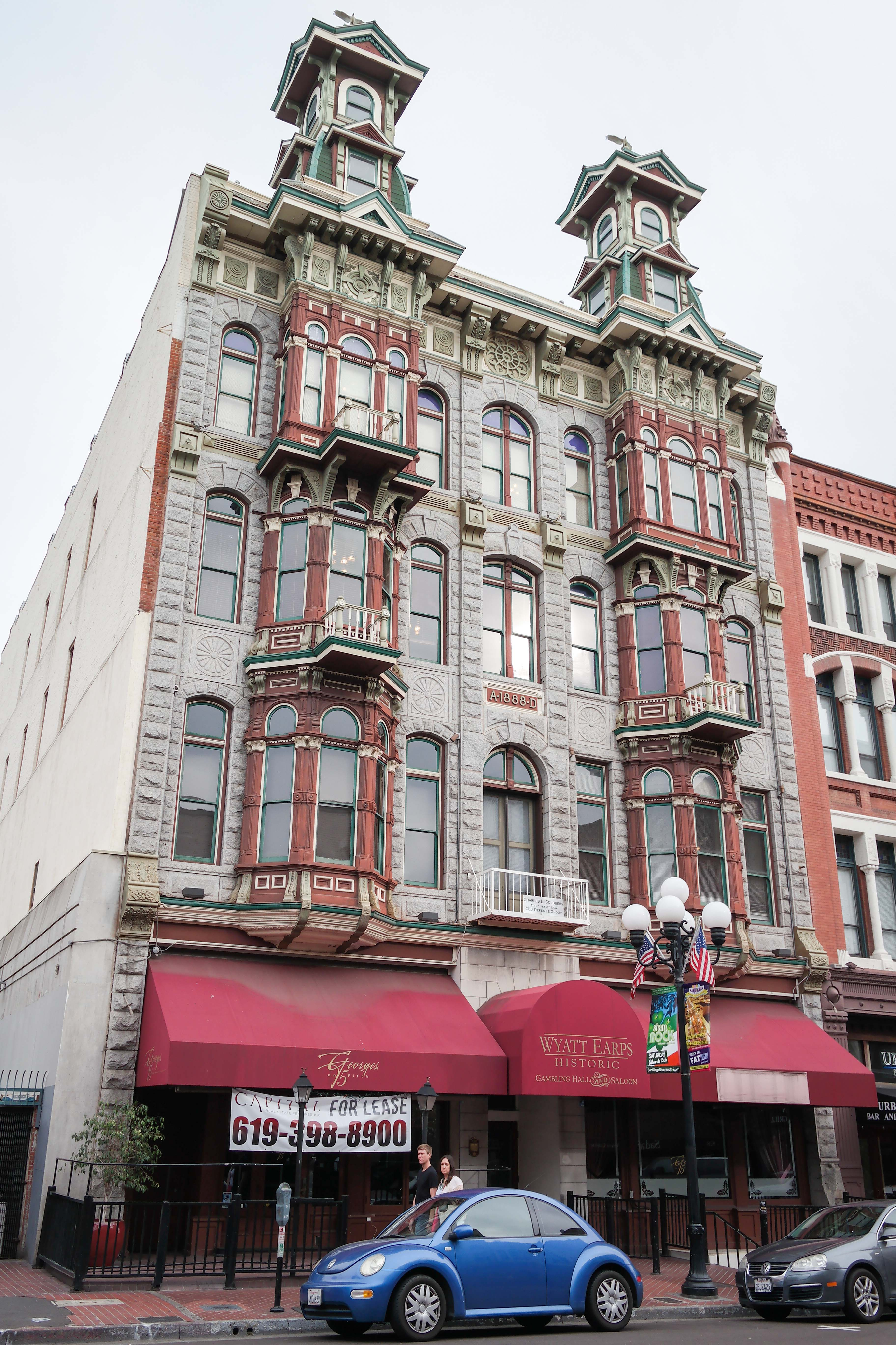 Historic Building Survey plaque: "32 Louis Bank of Commerce, 1888. Punctuated by twin rising towers, San Diego's first granite building is an excellent example of Baroque Revival architecture. The four-story structure housed the Bank of Commerce until 1893, when entrepreneur Isidor Louis opened an oyster bar which became a favorite of Wyatt Earp. The upper floors later became known as the Golden Poppy Hotel, a notorious brothel run by fortune-teller Madame Cora. Her ladies wore dresses colored to match the doors of their rooms."